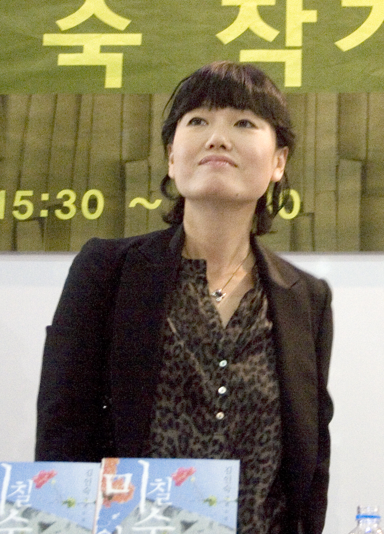 Korean Author Kim In-suk at the 2011 International Book Fair in Seoul